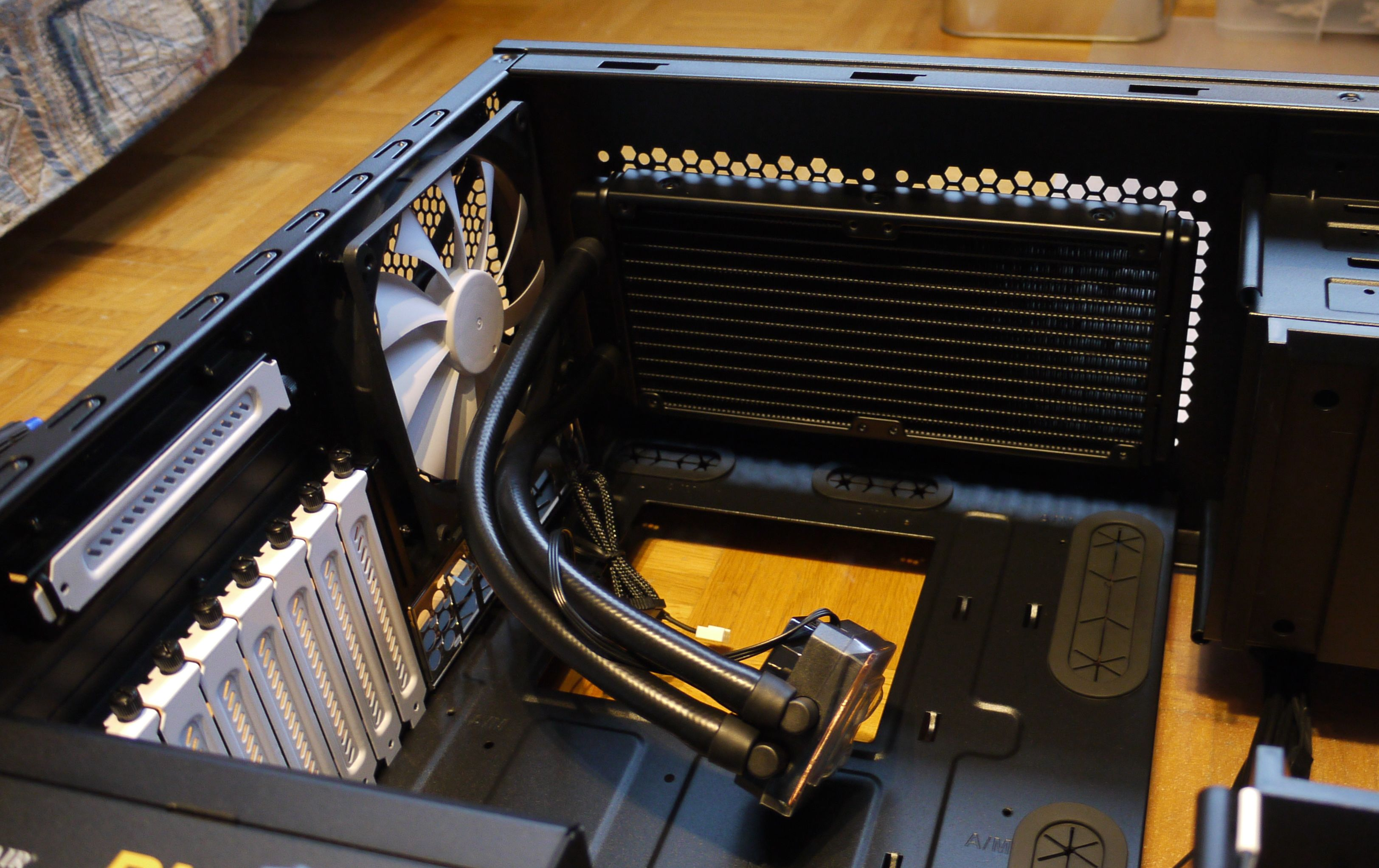 Top part of an ATX case with Prefilled Watercooler's heatsink and one 120 mm case fan. Case is a Fractal Design Define R4